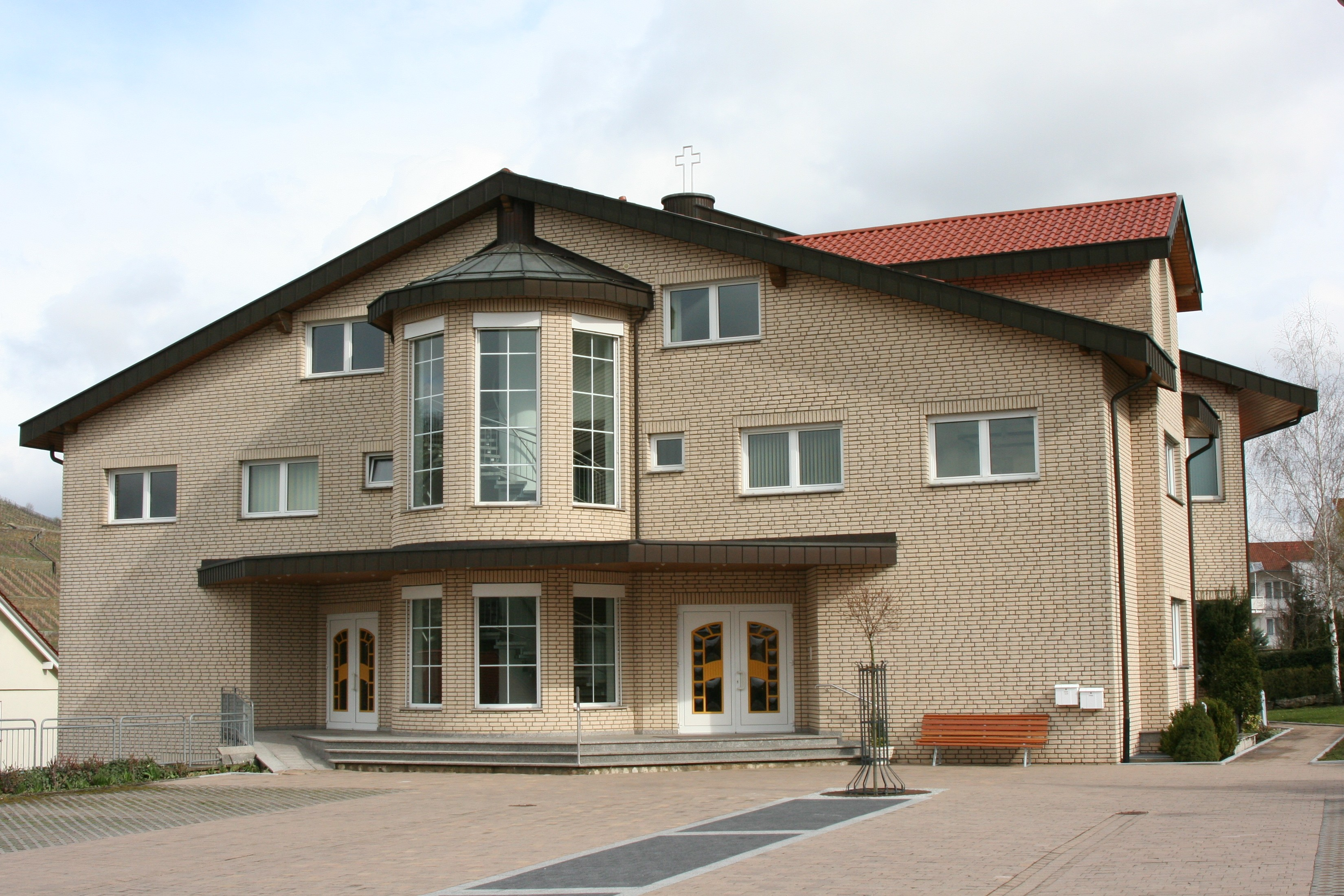 Baptist gospel hall in Weinsberg